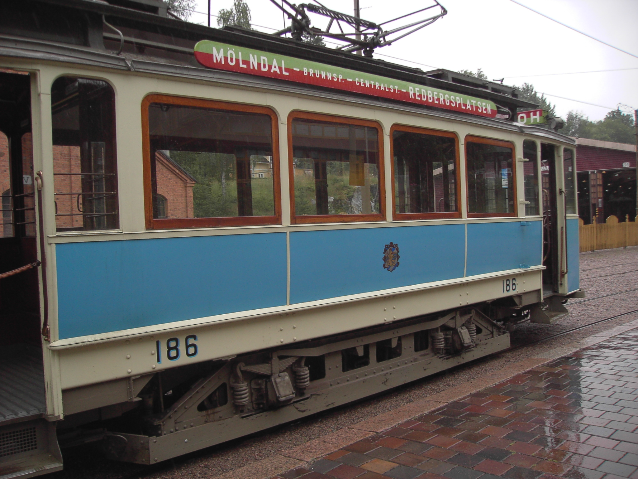 Tram #186 from Gothenburg at the Tramway Museum in Malmköping.